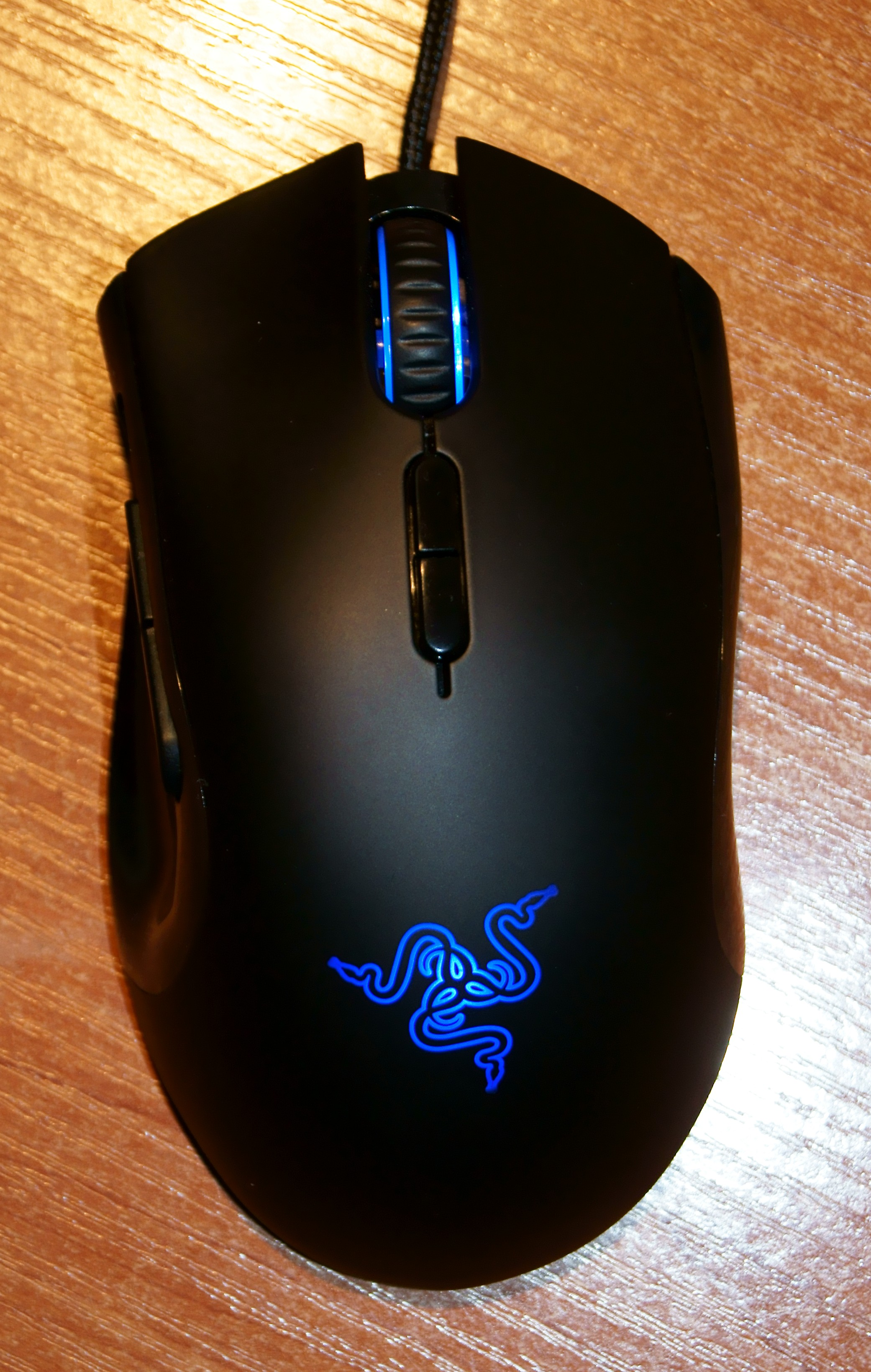 Razer Imperator laser gaming mouse. On this picture it is shown with illuminated scroll and Razer logo.